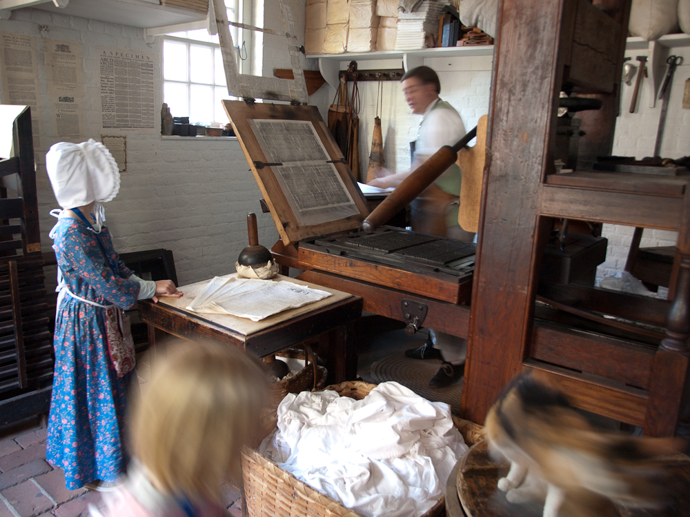 Printing eighteenth-century colonial newspapers with assistants.